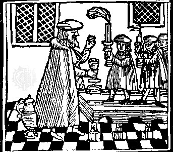 Havdala ceremony marking the end of the Sabbath with wine and candle; woodcut from a minhagim (“customs”) book, Amsterdam, 1662. Jewish Museum, New York City/Art Resource, New York